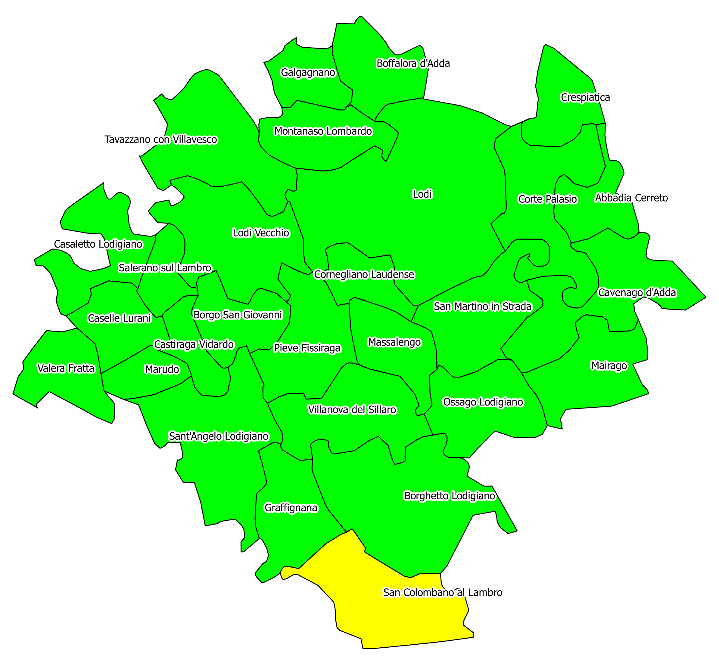 made with qgis